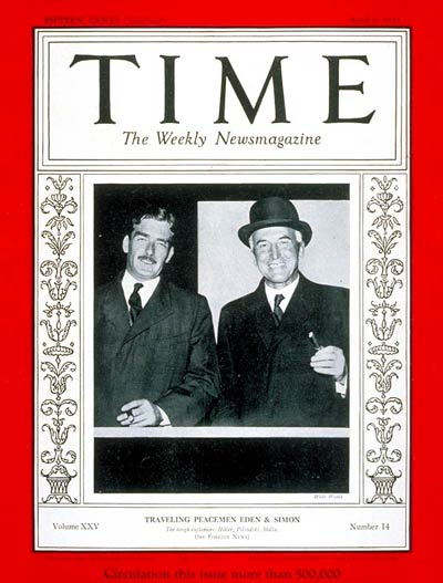 Anthony Eden and John Simon on Time magazine cover, 1935.